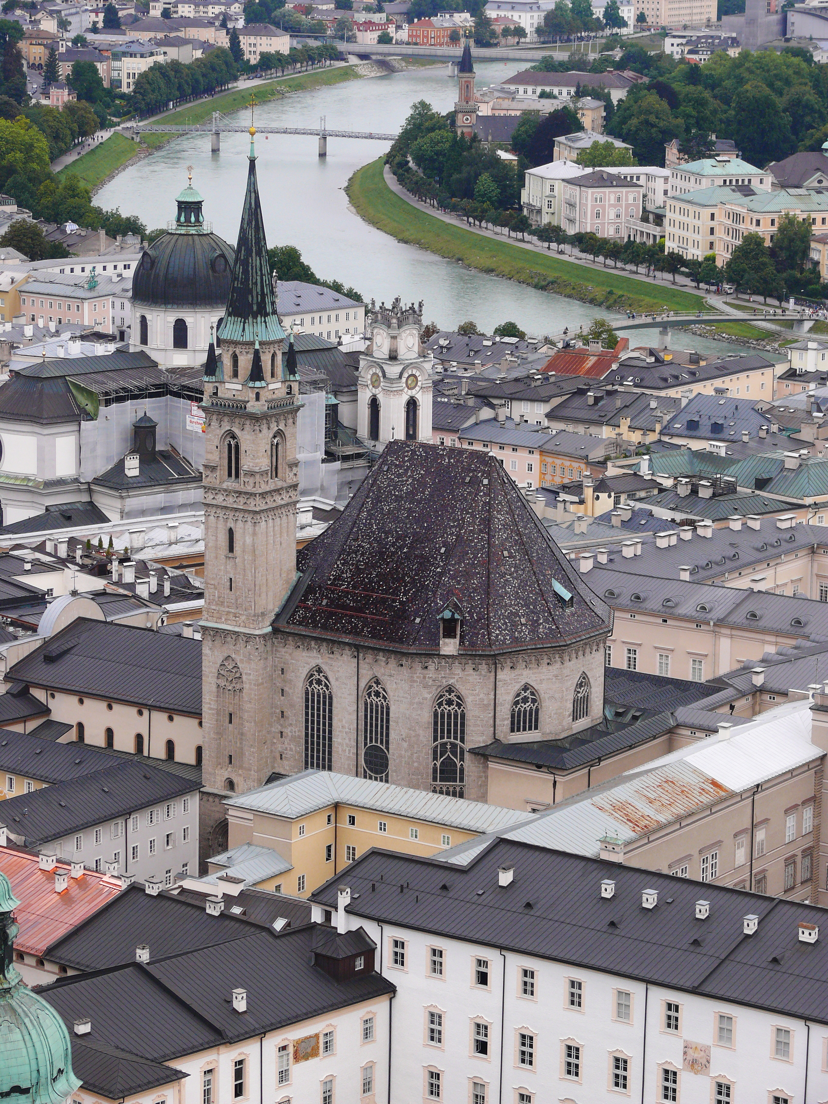 The Franciscan Church, Salzburg, Austria Late Gothic mixed with Baroque.